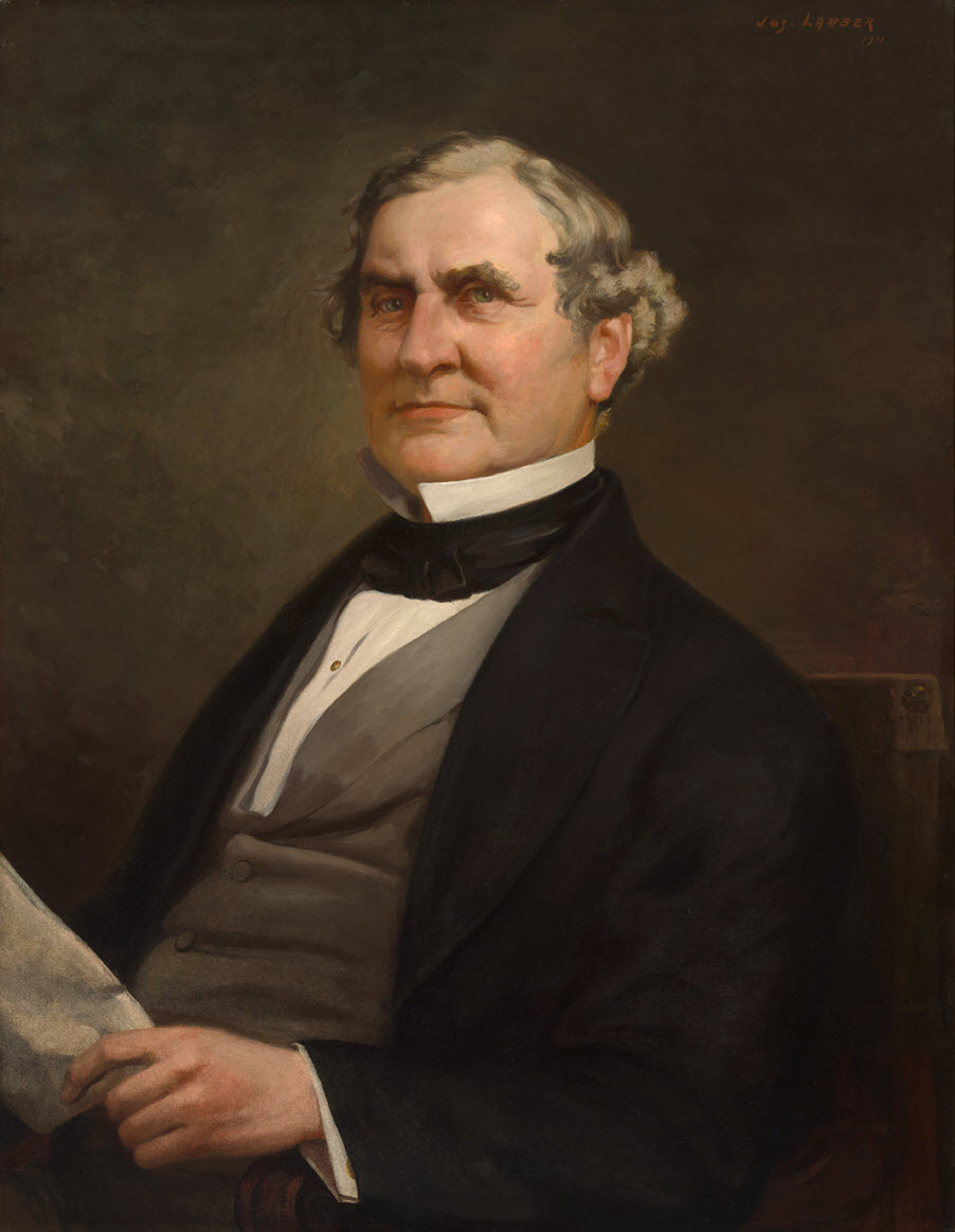 William Pennington, Speaker of the U. S. House of Representatives. Note: William Pennington’s portrait was acquired in 1911 as part of the House’s initiative to acquire oil portraits of each former Speaker. Joseph Lauber, a German-born artist who studied with William Merritt Chase at the Art Students League in New York, completed the commission. As an artist, Lauber was better known for his murals and decorative work. He collaborated with John LaFarge on Cornelius Vanderbilt’s residence, and on the stained glass windows of New York’s Appellate Court.